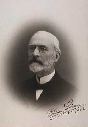 Danish industrialist, director of Royal Copenhagen, politician, MP, Philip Julius Schou (1838-1922)